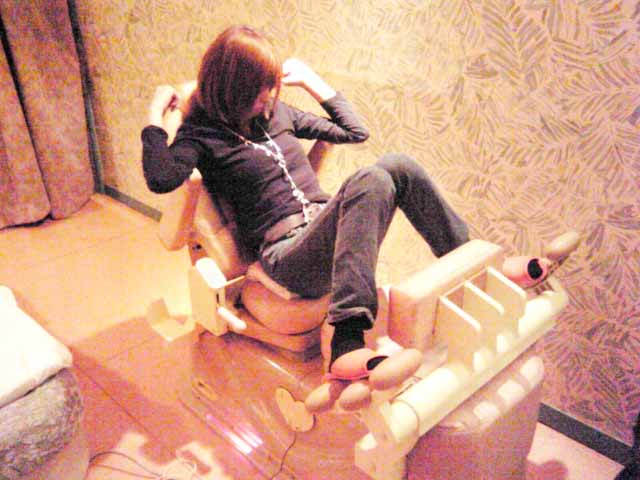 love chair